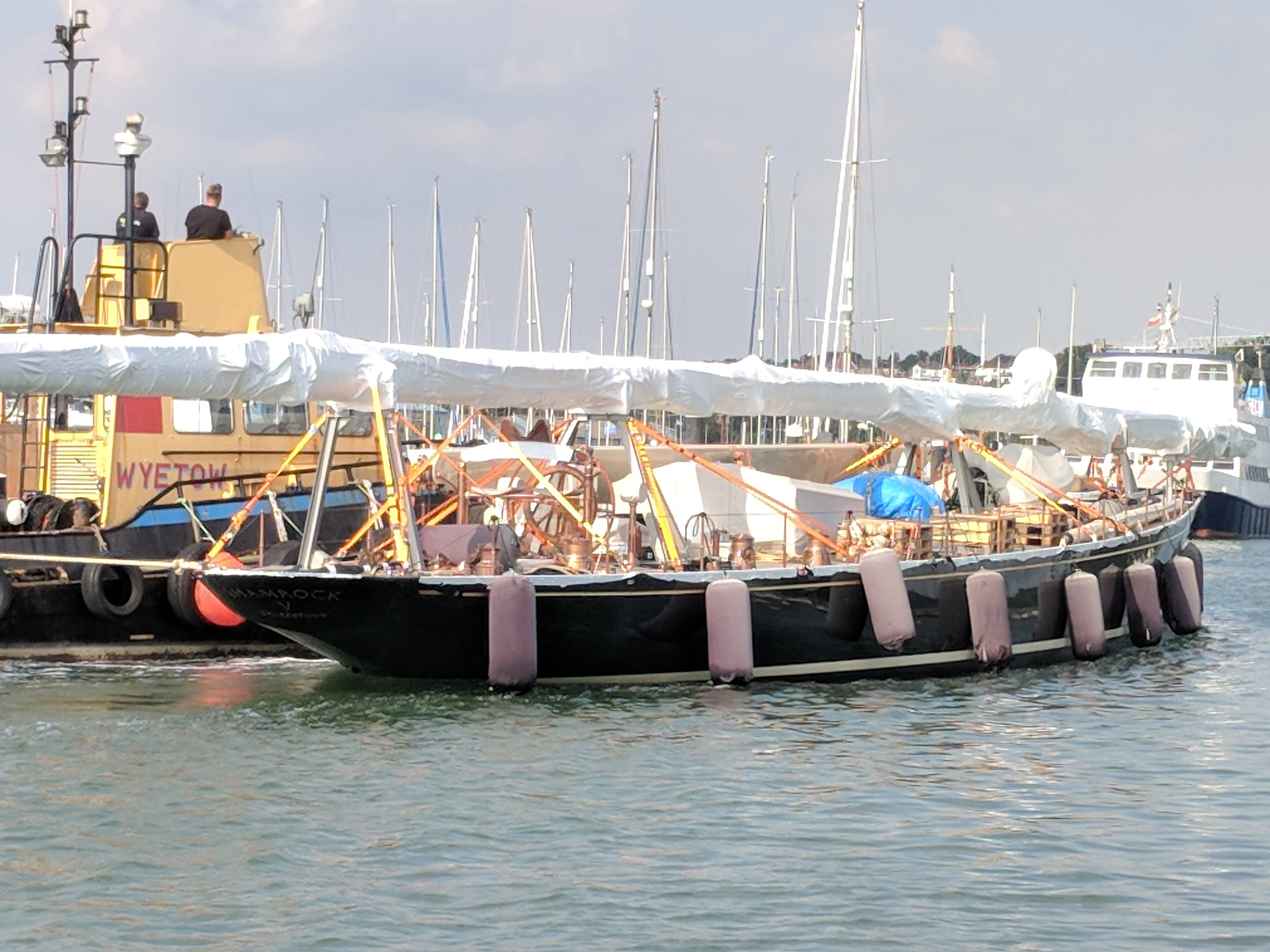 Shamrock V, apparently newly painted and refitted, arrives home in the River Itchen, Southampton